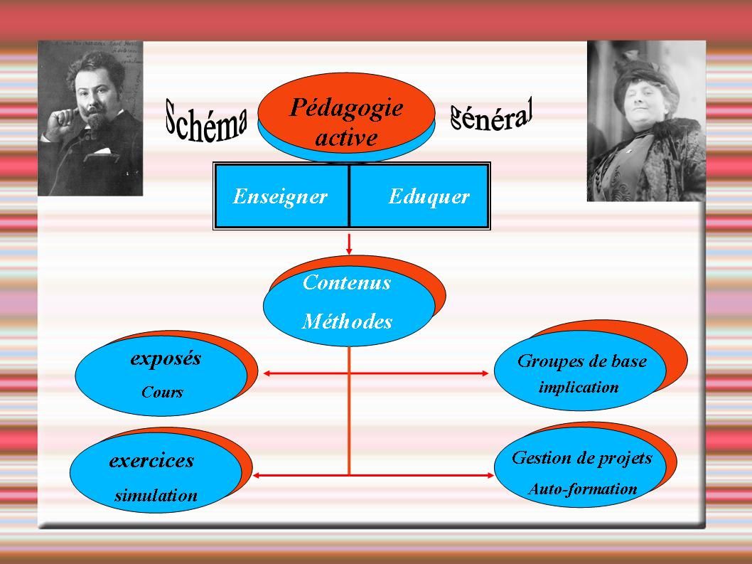 Méthodes en pédagogie active - Schéma général